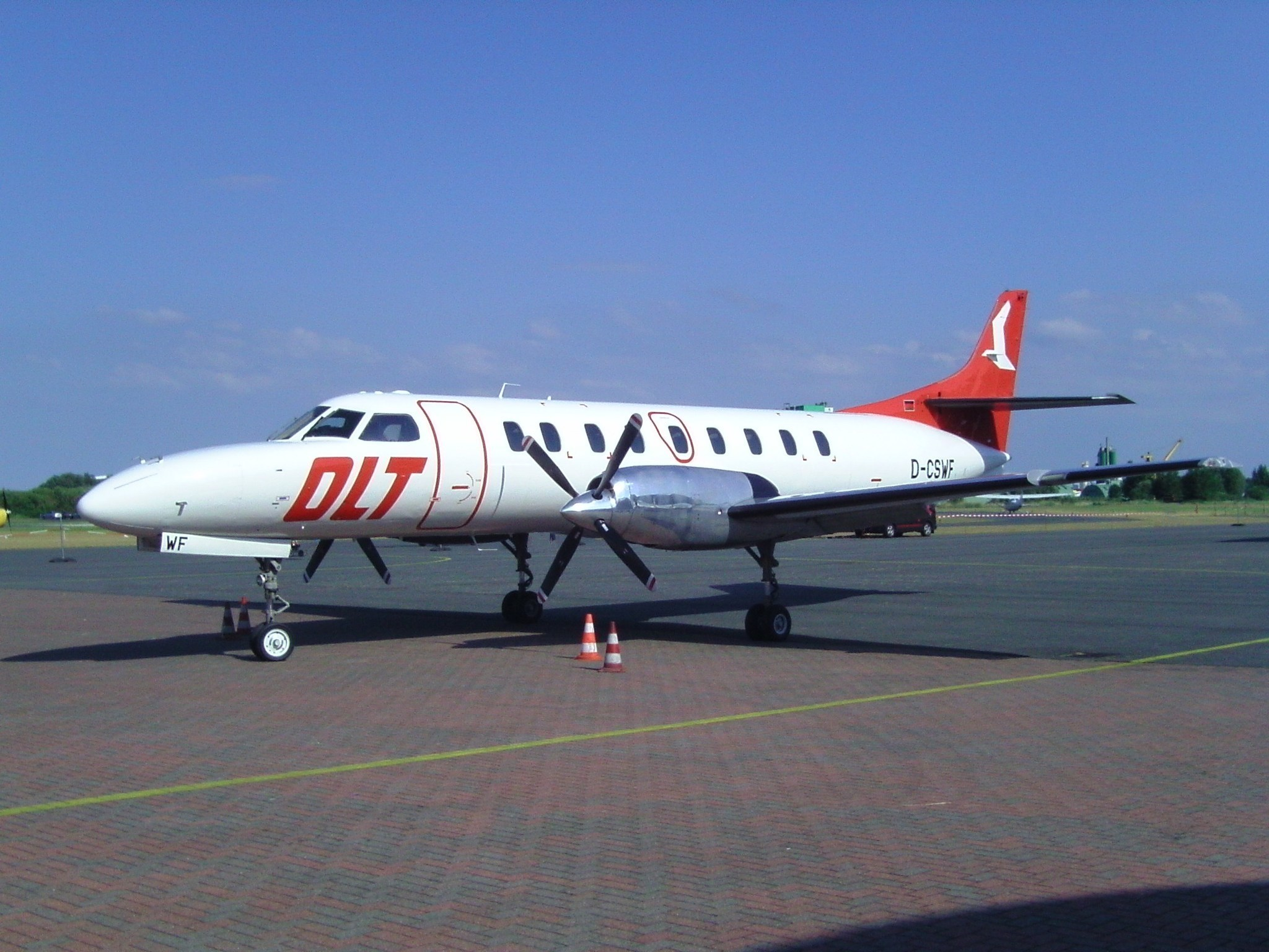 A Fairchild Swearingen Metroliner of the German regional airline OLT at the airfield of Bremerhaven